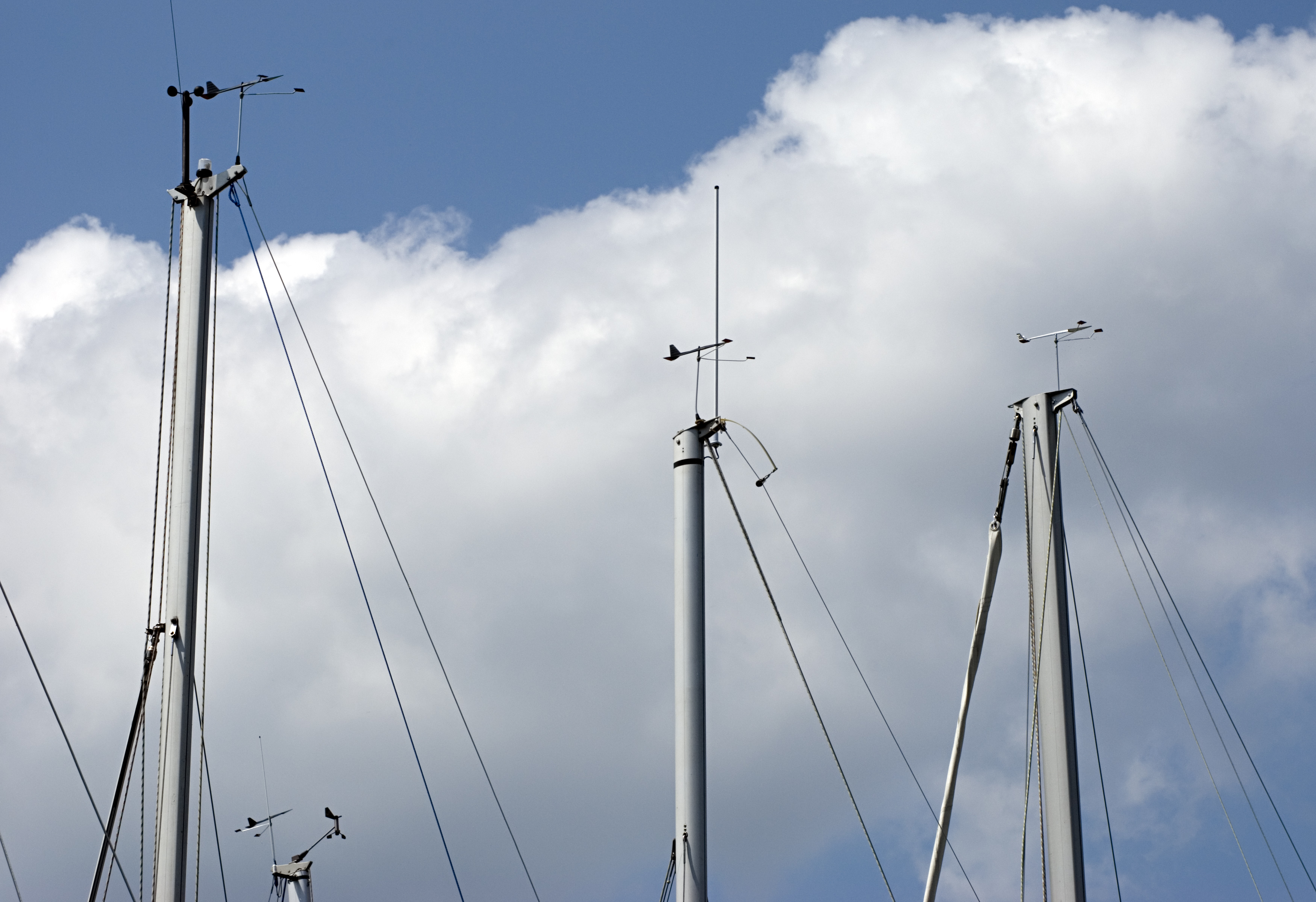 Weather vanes on mast tops of sailing ships at the Werbellinsee